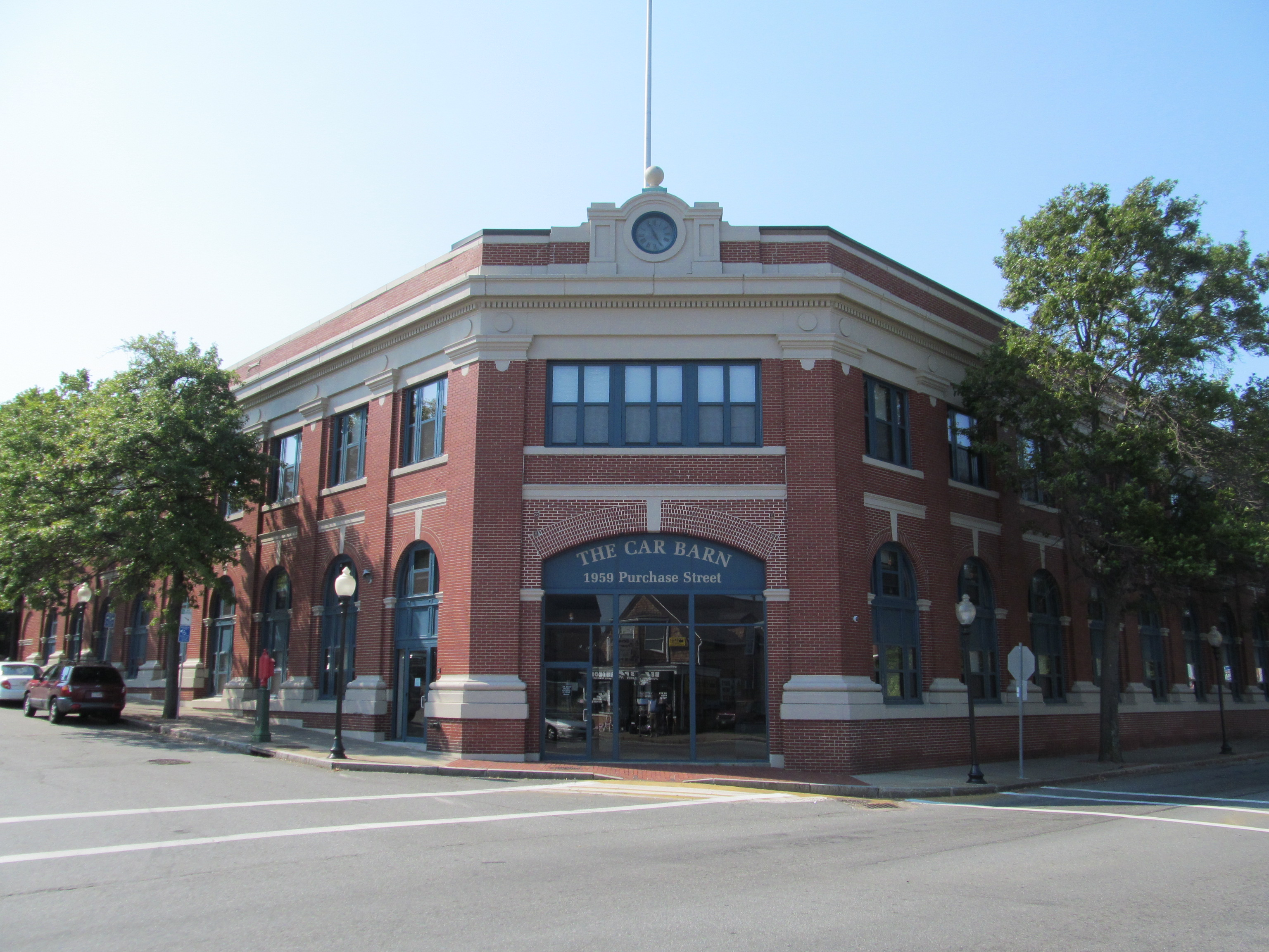 Union Street Railway Carbarn, New Bedford Massachusetts